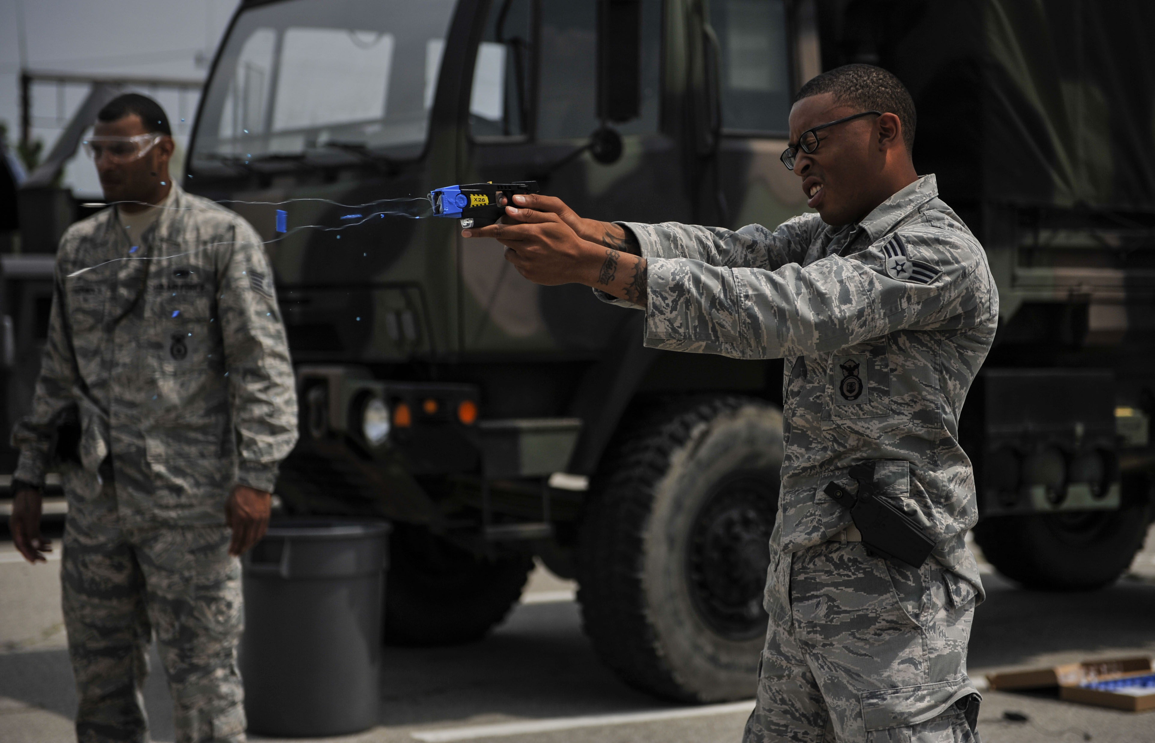 Senior Airman Marcus Thomas fires a Taser during training June 27, 2014, on Osan Air Base, South Korea. The Taser fires two small dart-like electrodes which stay connected to the main unit by conductive wire while being propelled by small compressed nitrogen charges. Thomas is a 51st Security Forces Squadron entry controller. (U.S. Air Force photo by Senior Airman David Owsianka/Released)